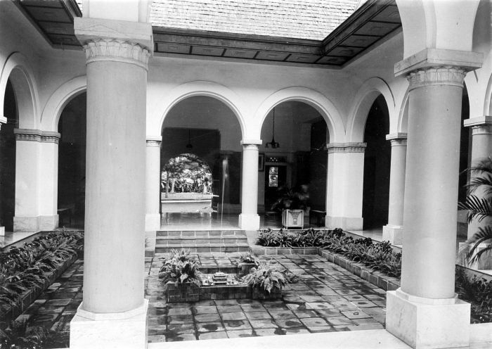 Inner court of the building of the Dutch East Indies Council at Weltevreden, Batavia